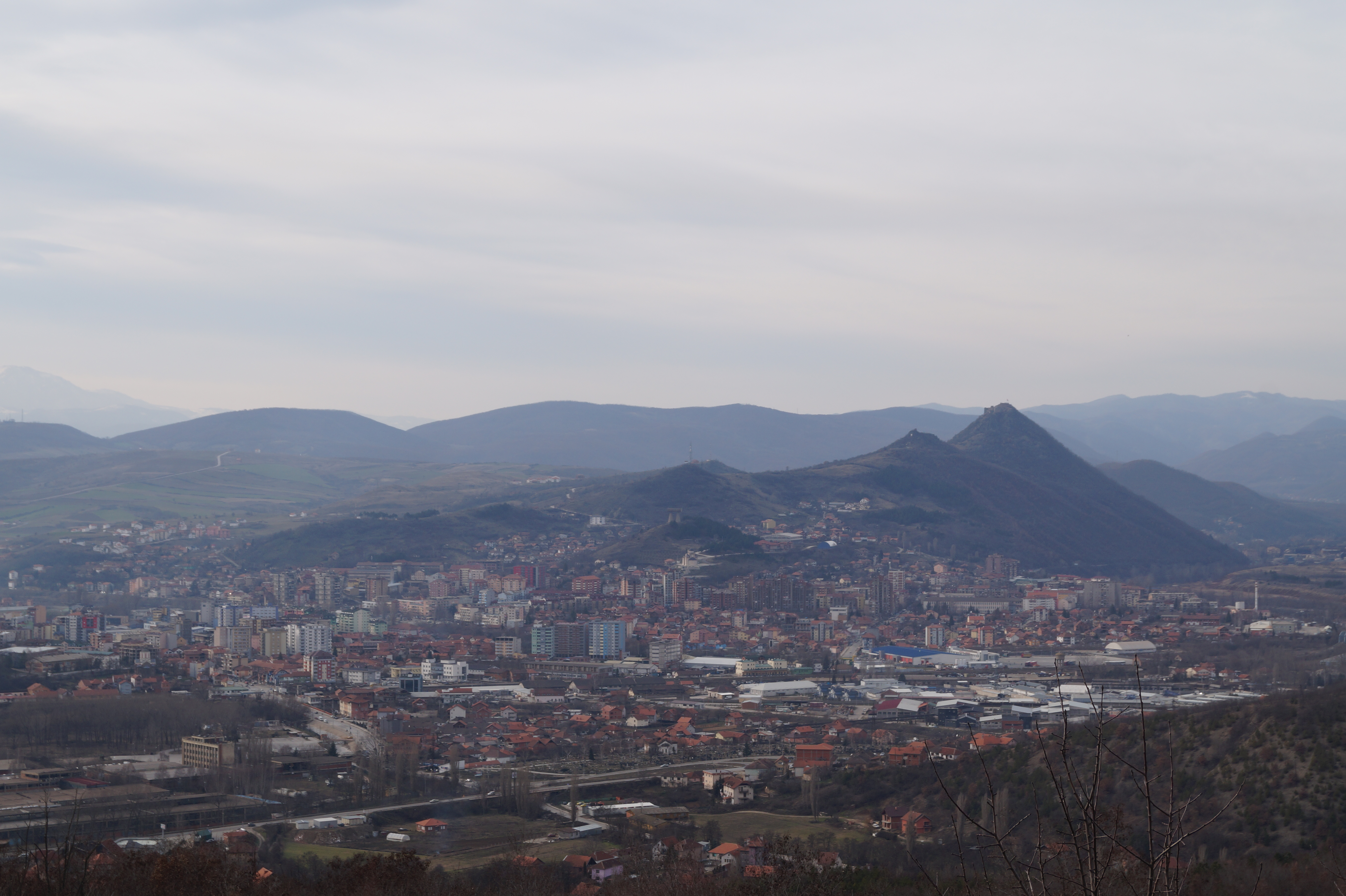 Mountains all around the city